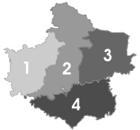 I created it